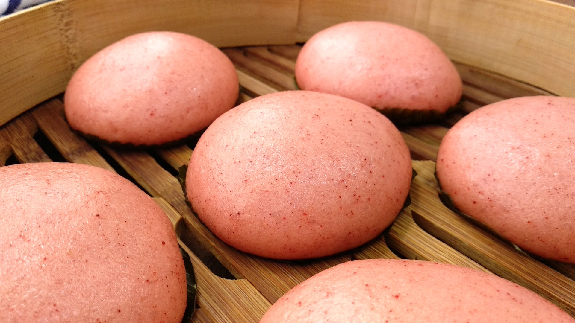 The traditional red Hee pan is made after steaming in a traditional bamboo steamer